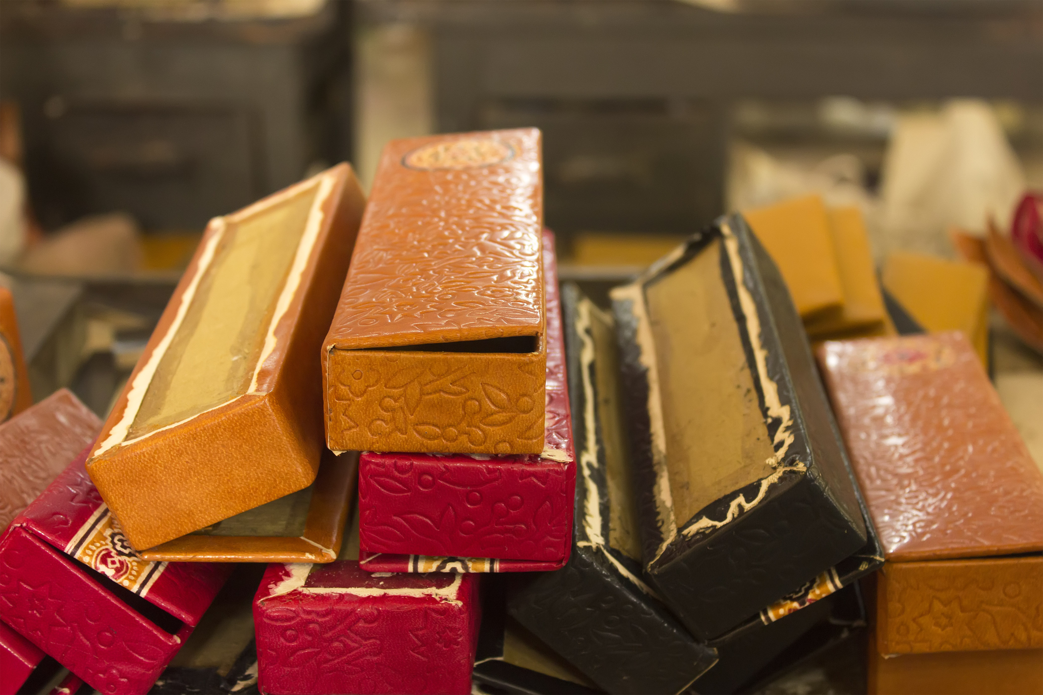 Pencil box made by Goat Leather in Santiniketan